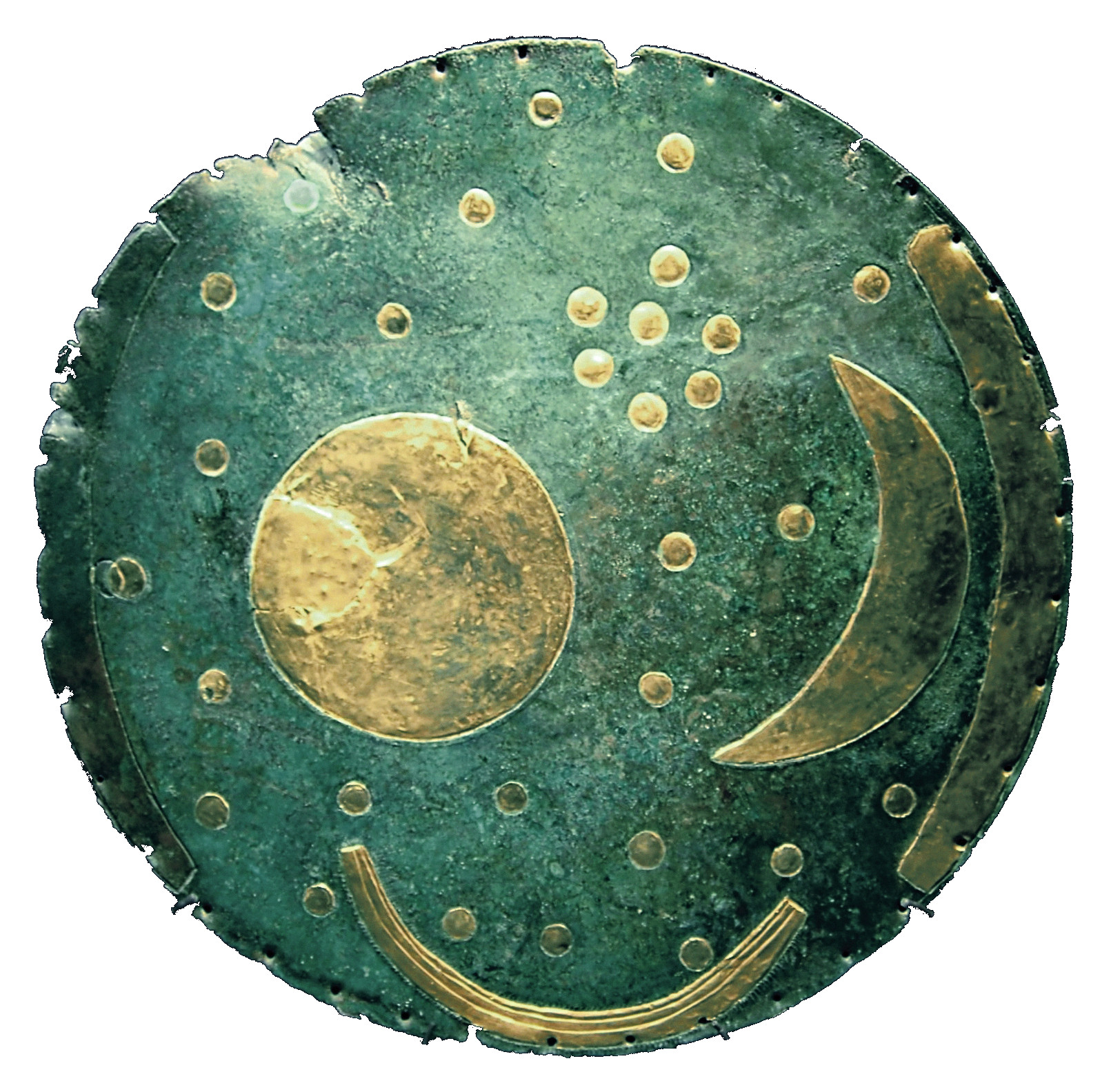 Nebra sky disk